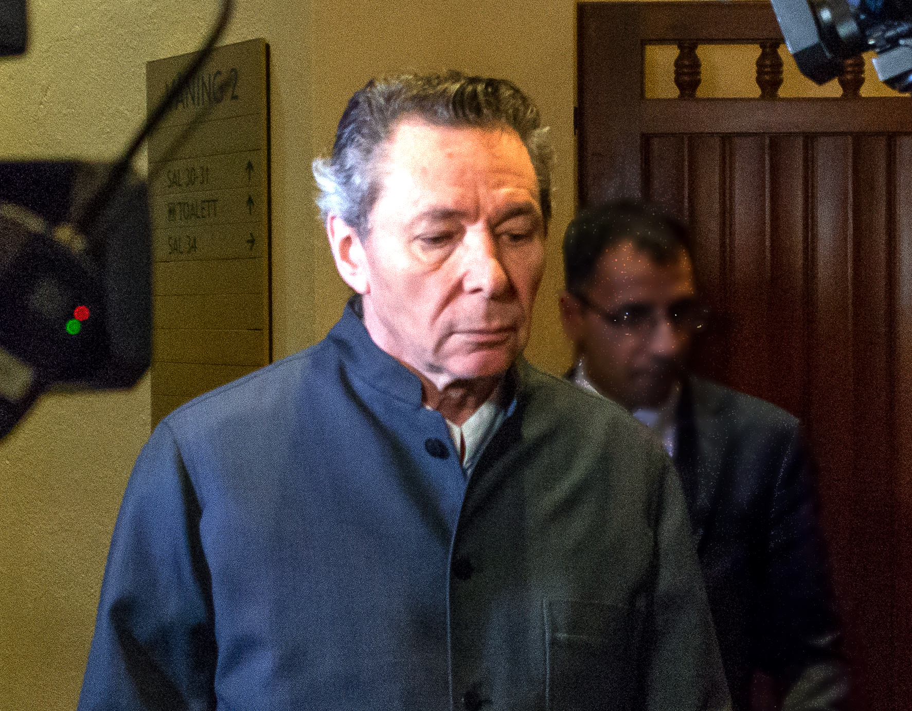 Jean-Claude Arnault headed to hall 34 on the last day of trial on September 24, 2018.